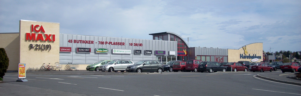 Harebakken shopping center at Harebakken, Arendal, Norway